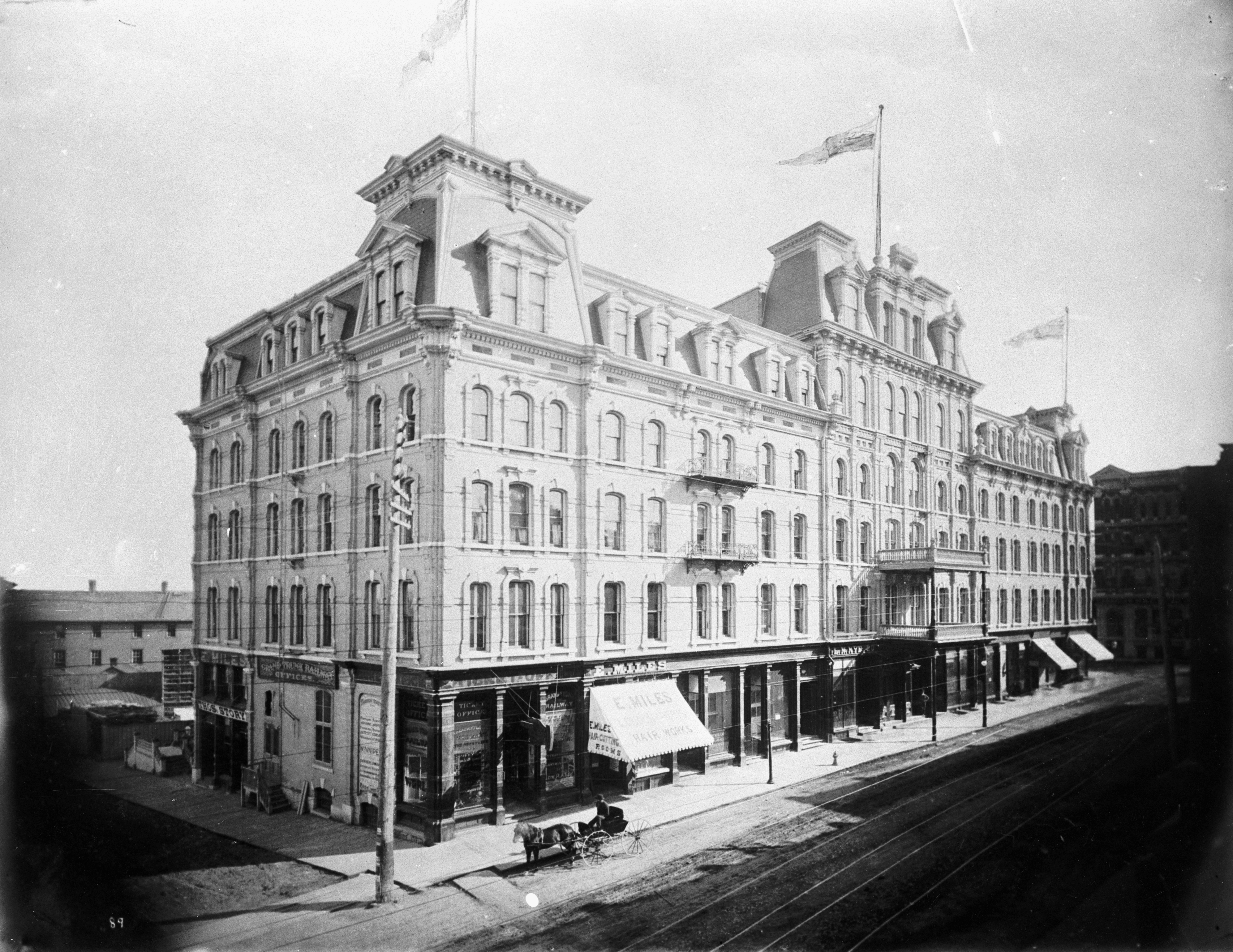 The Russel Hotel, on the South East corner of Sparks Street and Elgin Street. c 1893. Ottawa, Ontario, Canada.